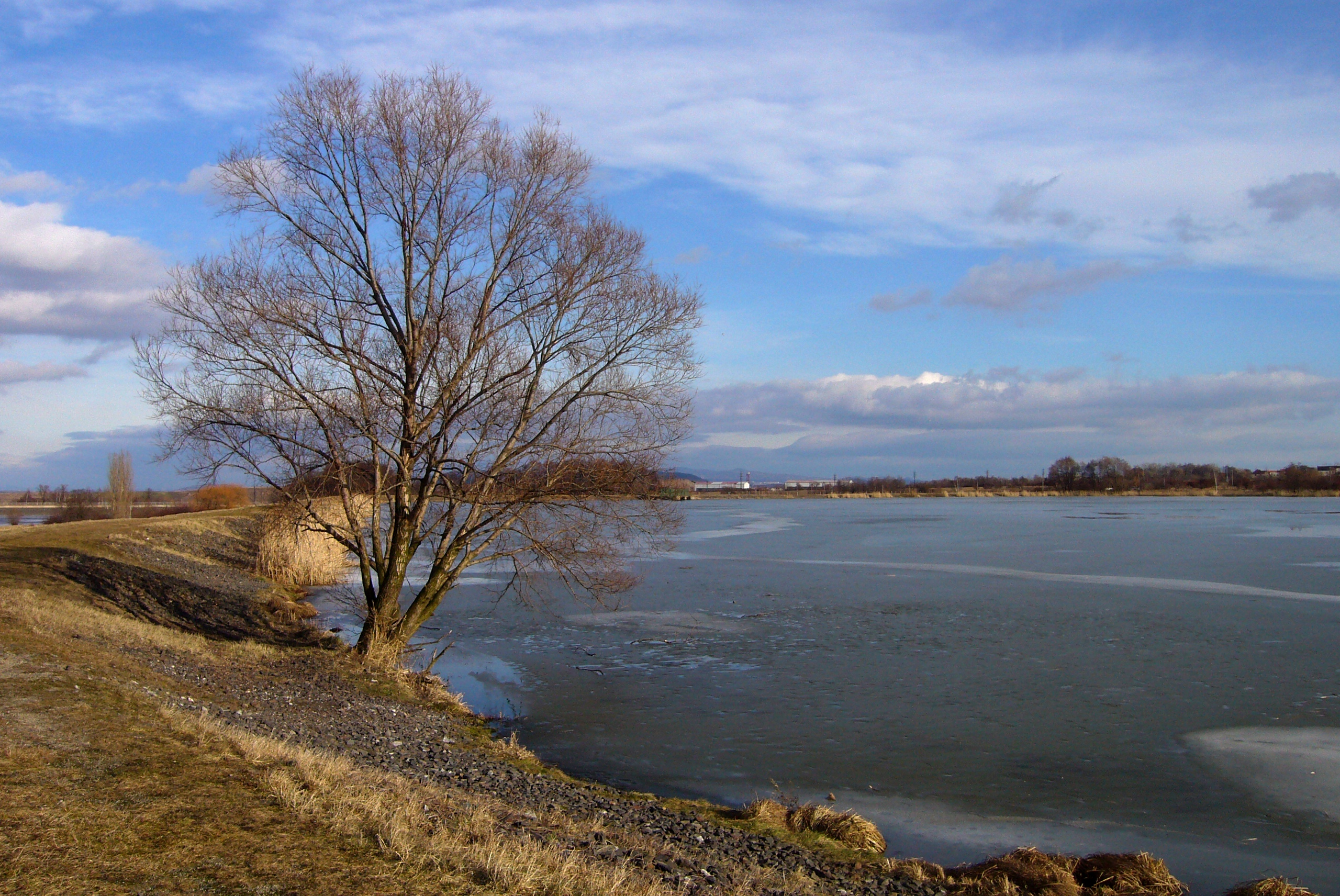 Zaječice Dam